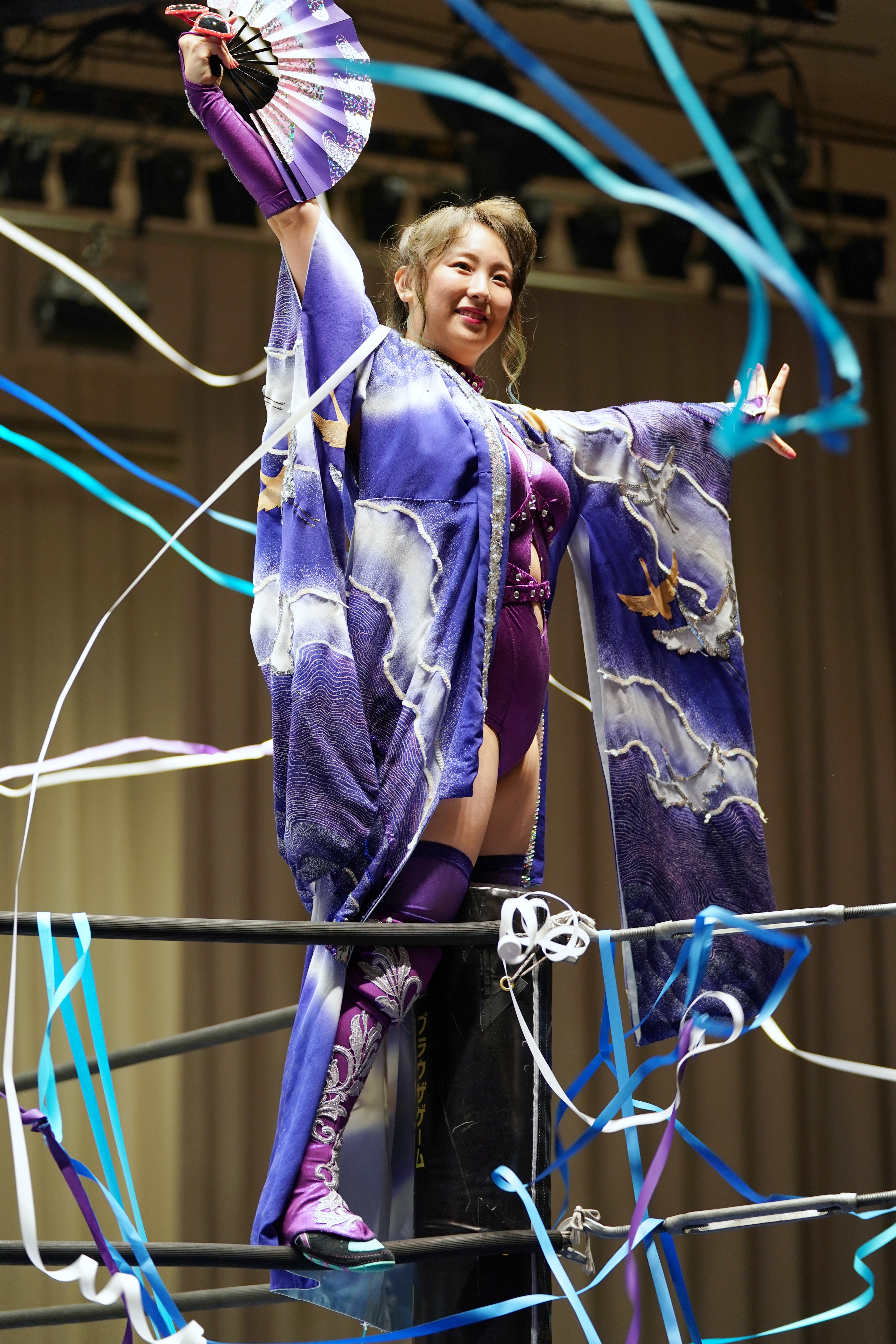 Yuma Manase (August 26, 2017 at Korakuen Hall)